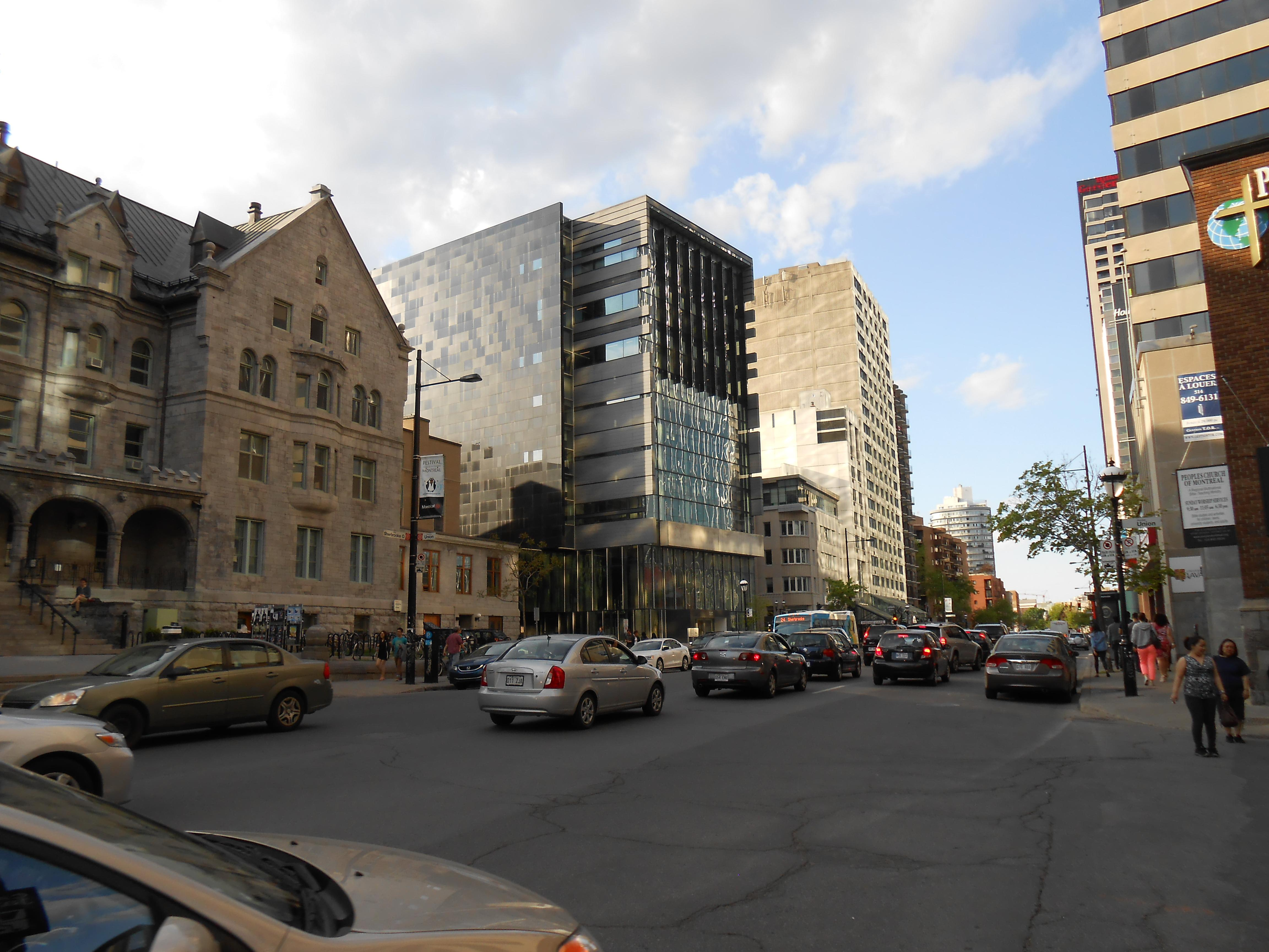 Center : McGill faculty Music department (other name: Schulich School of Music New building), 527 Sherbrooke Street West, Montreal « This modern addition to the storied Schulich School of Music building opened in 2006, and houses a world-class sound studio, audio research labs, the Marvin Duchow Music Library, a 200-seat recital hall and the Wirth Opera Rehearsal Room. » – mcgill.ca